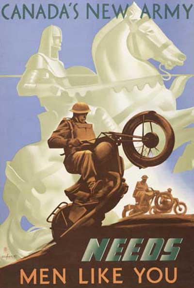 World War II recruitment poster from Canada